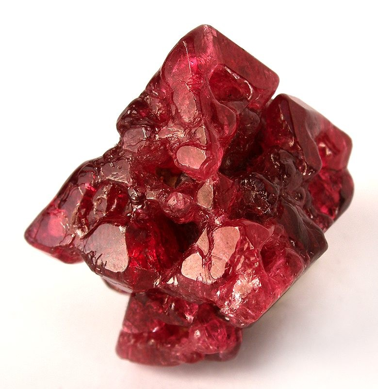 Spinel Locality: Luc Yen, Yenbai (Yen Bai) Province, Vietnam (Locality at ) Size: 3.4 x 3.3 x 3.1 cm. This is a superb gem, “hoppered” spinel crystal from Vietnam. It is a floater, complete 360 degrees, all around. It is exceptionally equant for a crystal of such size, with under five percent variation on the three axes.